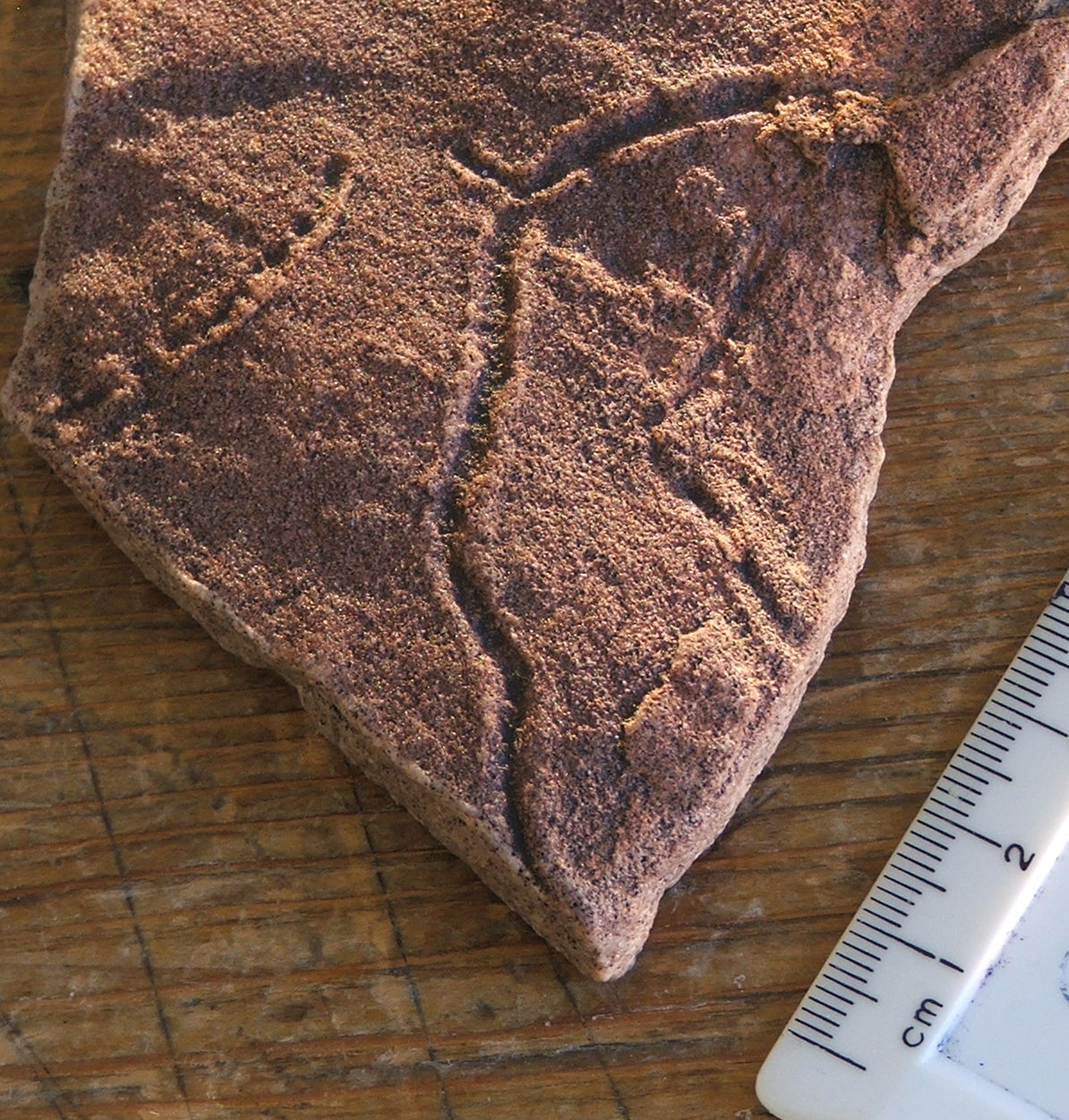 Category:Trace fossils